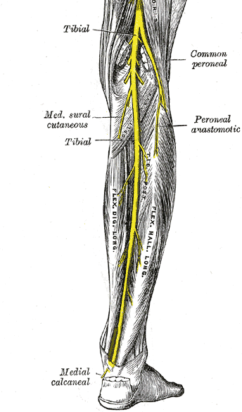 Nerves of the right lower extremity Posterior view.